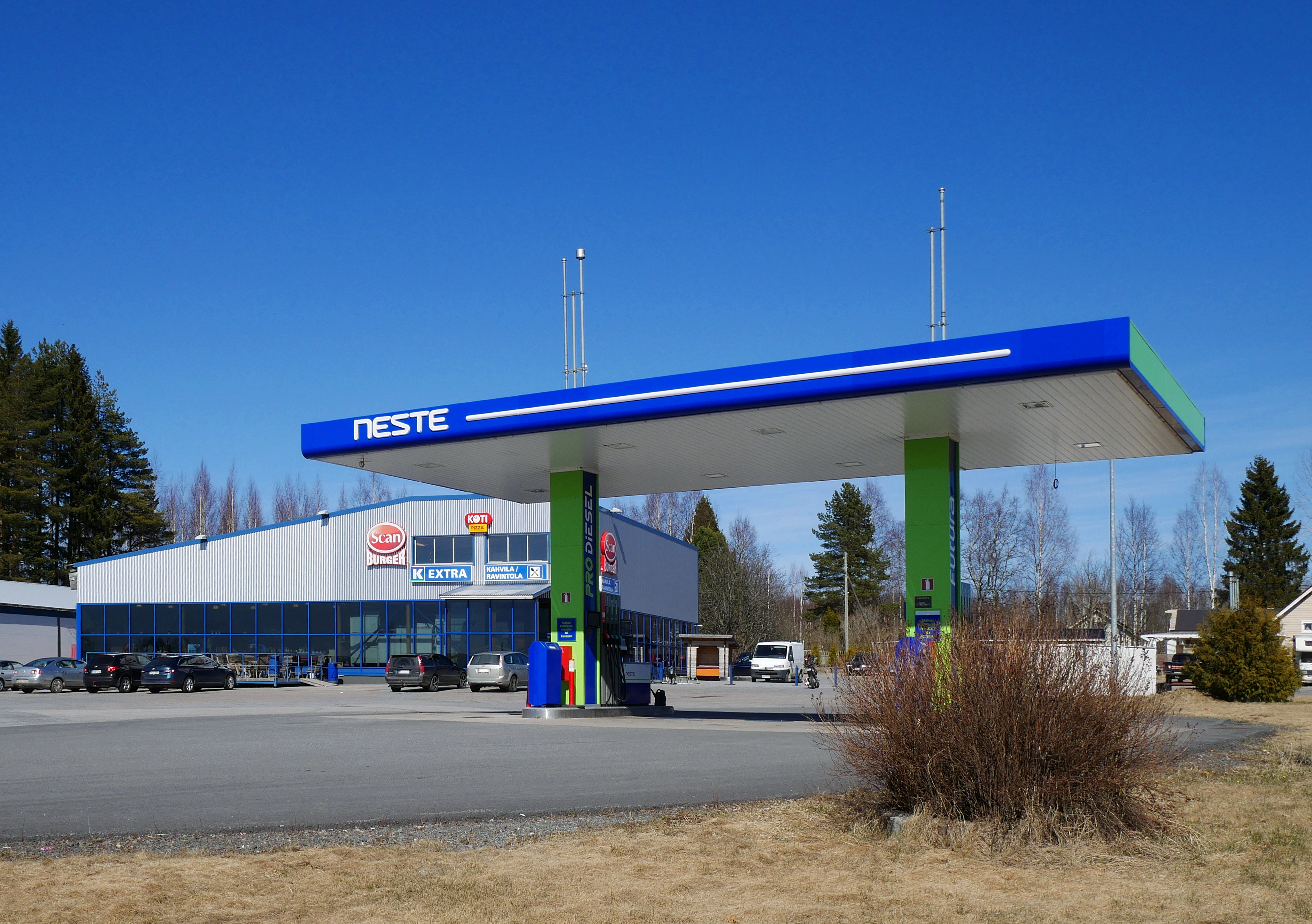 Petrol station in Hoisko, Alajärvi, Finland.